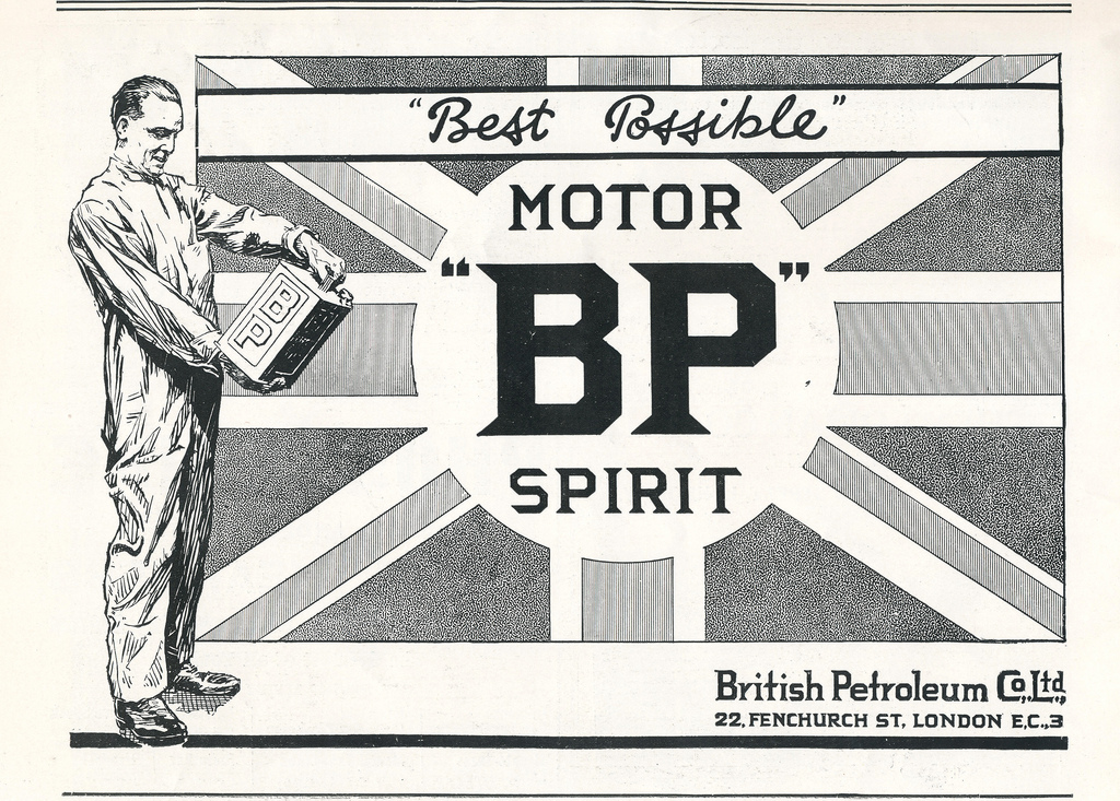 BP British Petroleum Co., Ltd., 1922 Union Jack ad.